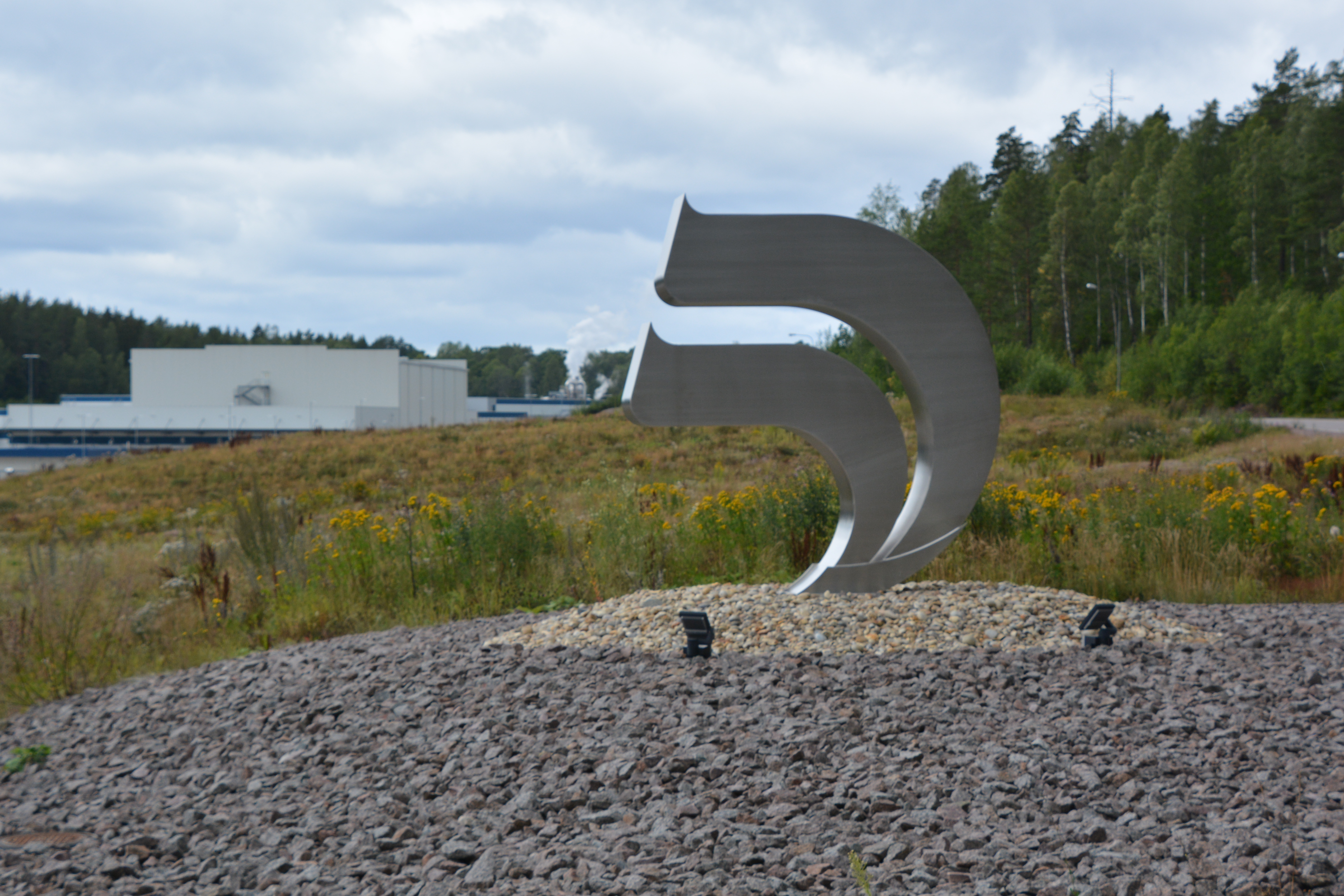 Tissue mill at Kisa, Kinda Municipality, Sweden. Sofidel Sweden AB